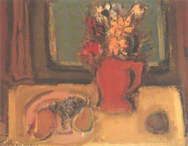 Louis Pevernagie Flowers The artist ist in quest of a balance between light and shade